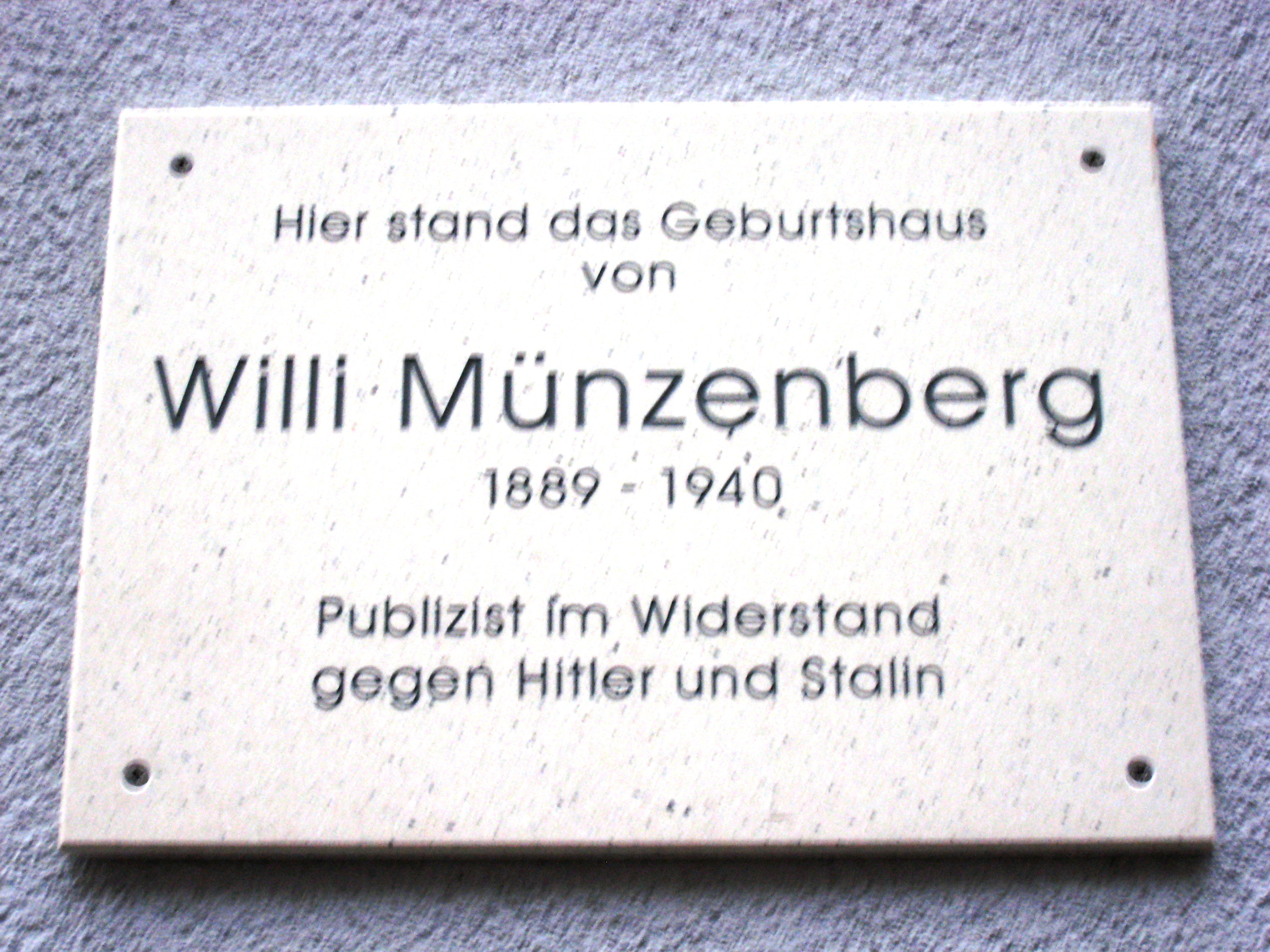 Memorial tablet for Willi Münzenberg, Augustinerstrasse, Erfurt